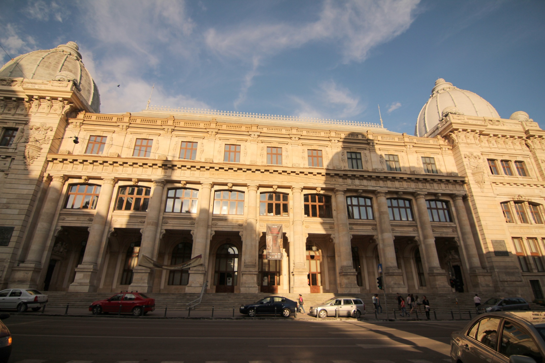 History Museum in BucharestRomână: Muzeul de Istorie din București